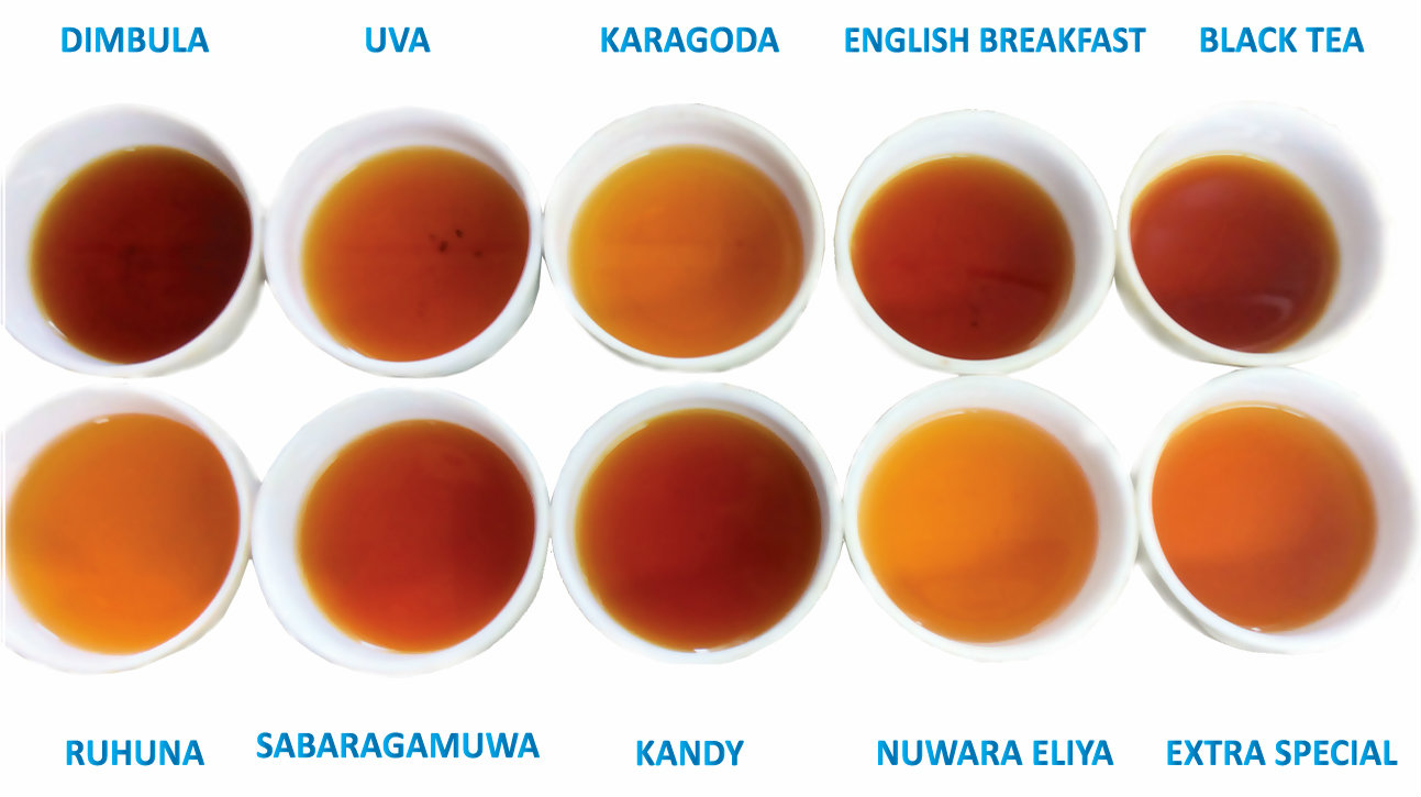 Ceylon black tea